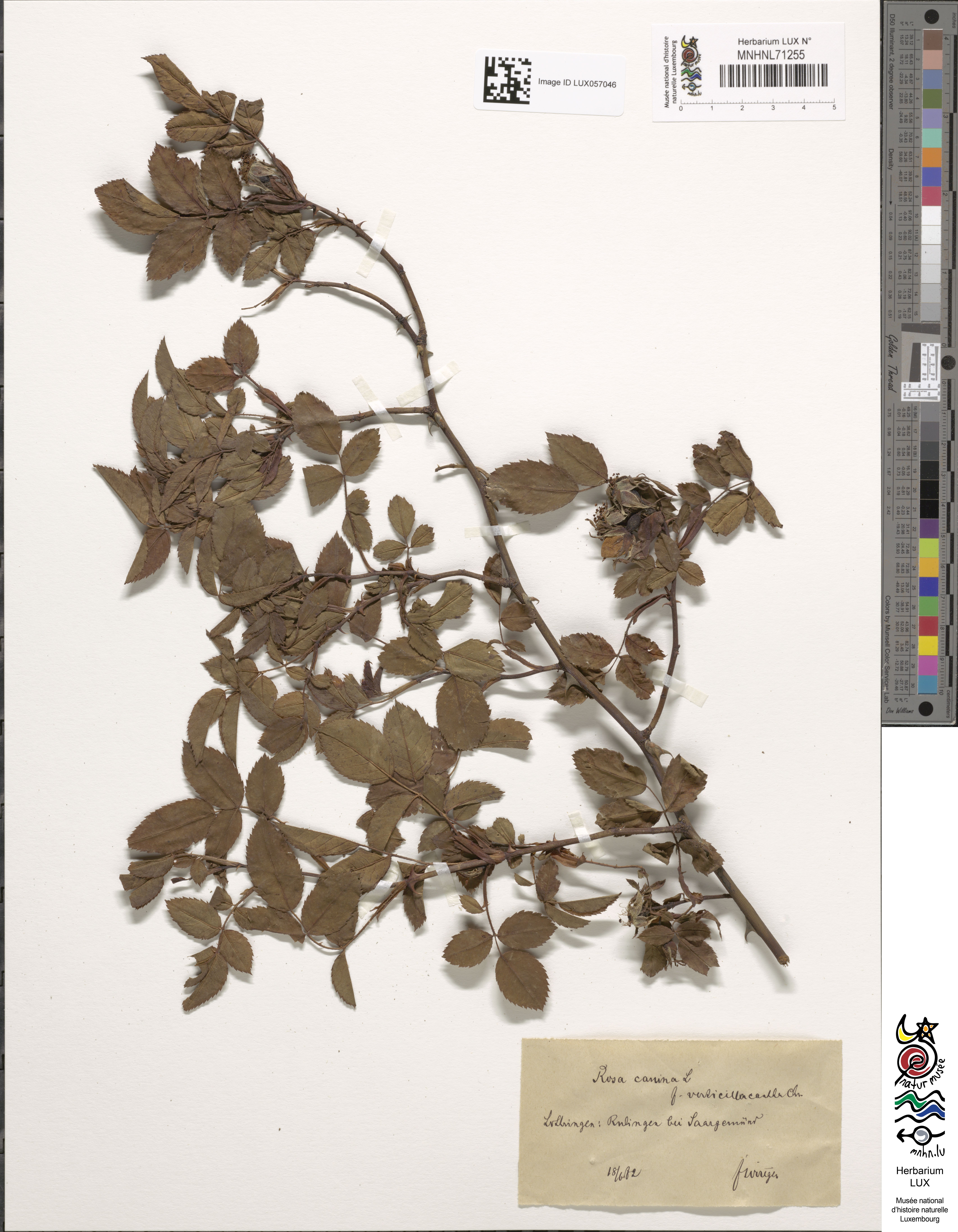 Herbarium sheet